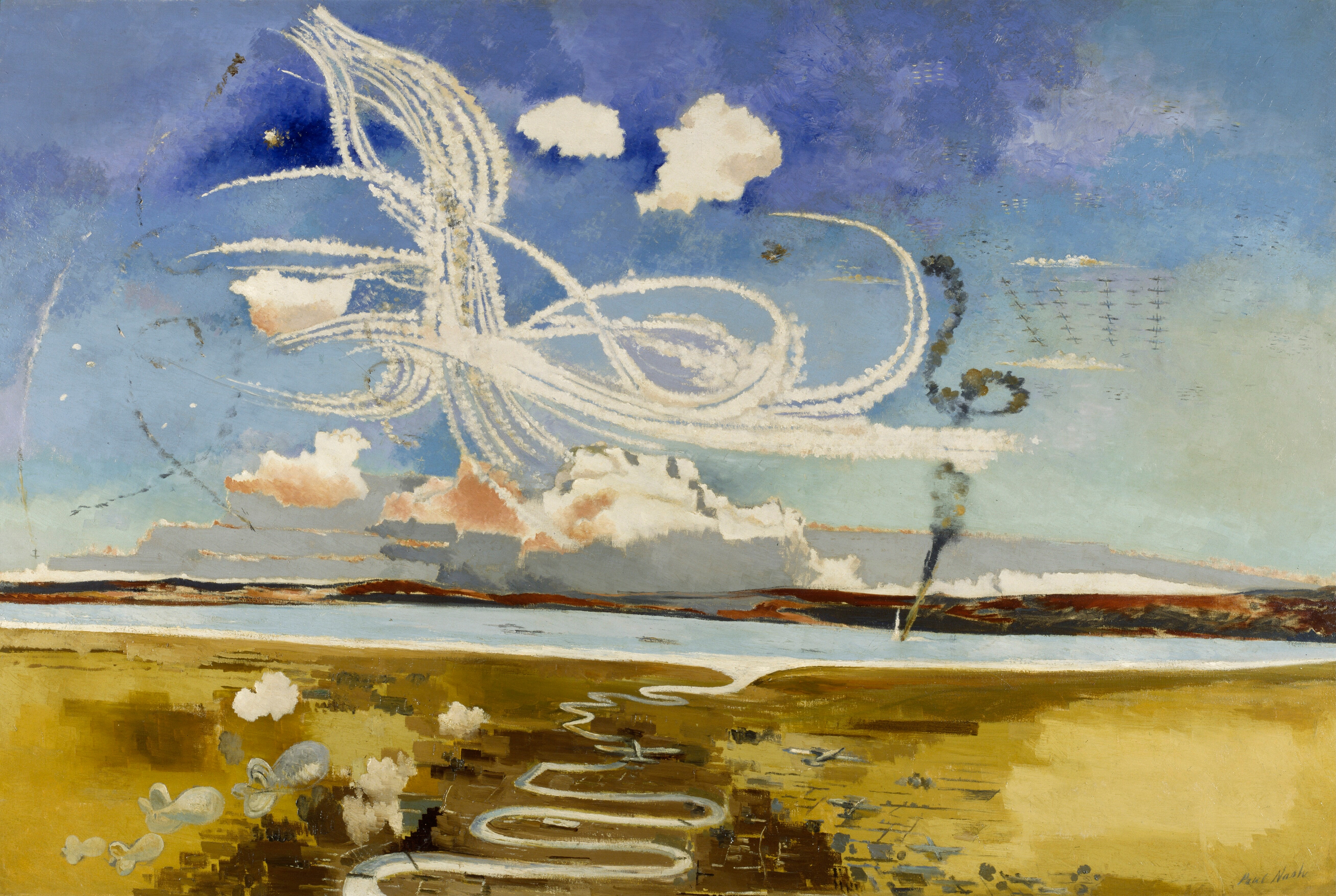 An abstracted aerial view of a wide flat landscape including the mouth of a river.Above the sky is full of aircraft contrails and smoke plumes, while to the upper right aircraft are flying in formation.